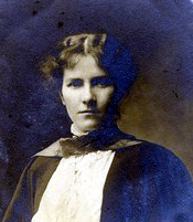 Dr Kate Fraser CBE (10 August 1887 – 20 March 1957) was a pioneering Scottish psychiatrist. Photo may be 1902